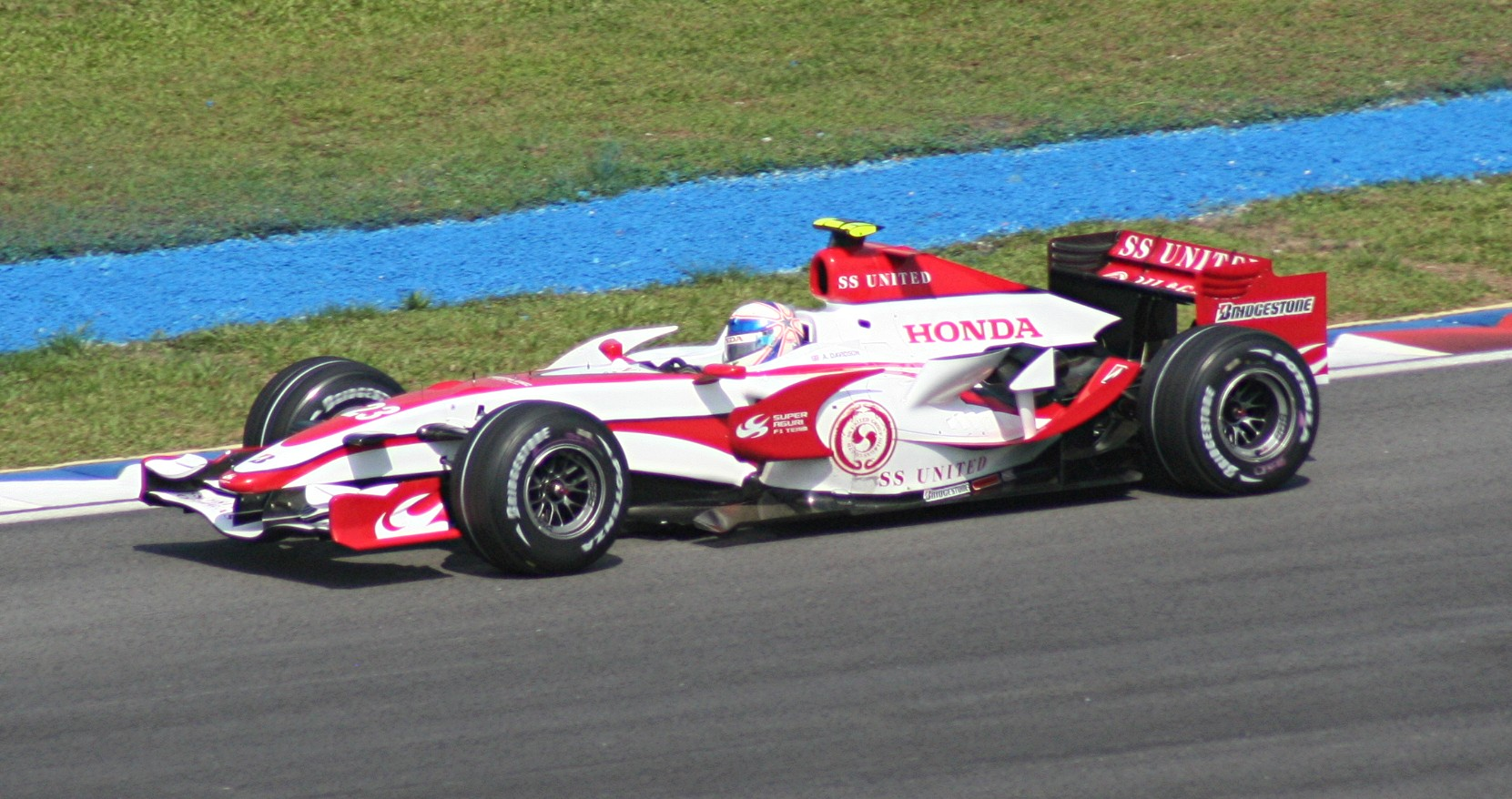 Anthony Davidson driving for Super Aguri F1 in the 2007 Malaysian Grand Prix.